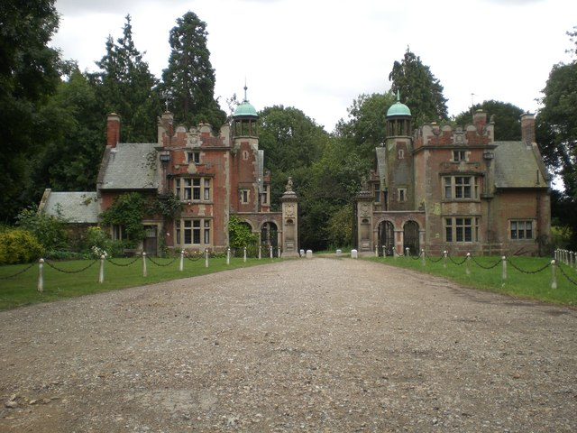 Lodges and gate, Sennowe Hall and Park Sennowe House was originally a Georgian house built in 1774 for Edmond Wodhouse MP. It was subsequently owned by the Morse-Boycott family (who had it re-built by Decimus Burton), Bernard Le Neve Foster (a lighting engineer), and then Thomas Cook, he of the eponymous travel agency. It is still owned by a Thomas Cook, great-great-grandson of the Thomas Cook. My information is mainly drawn from an Eastern Daily Press article of November 2003.